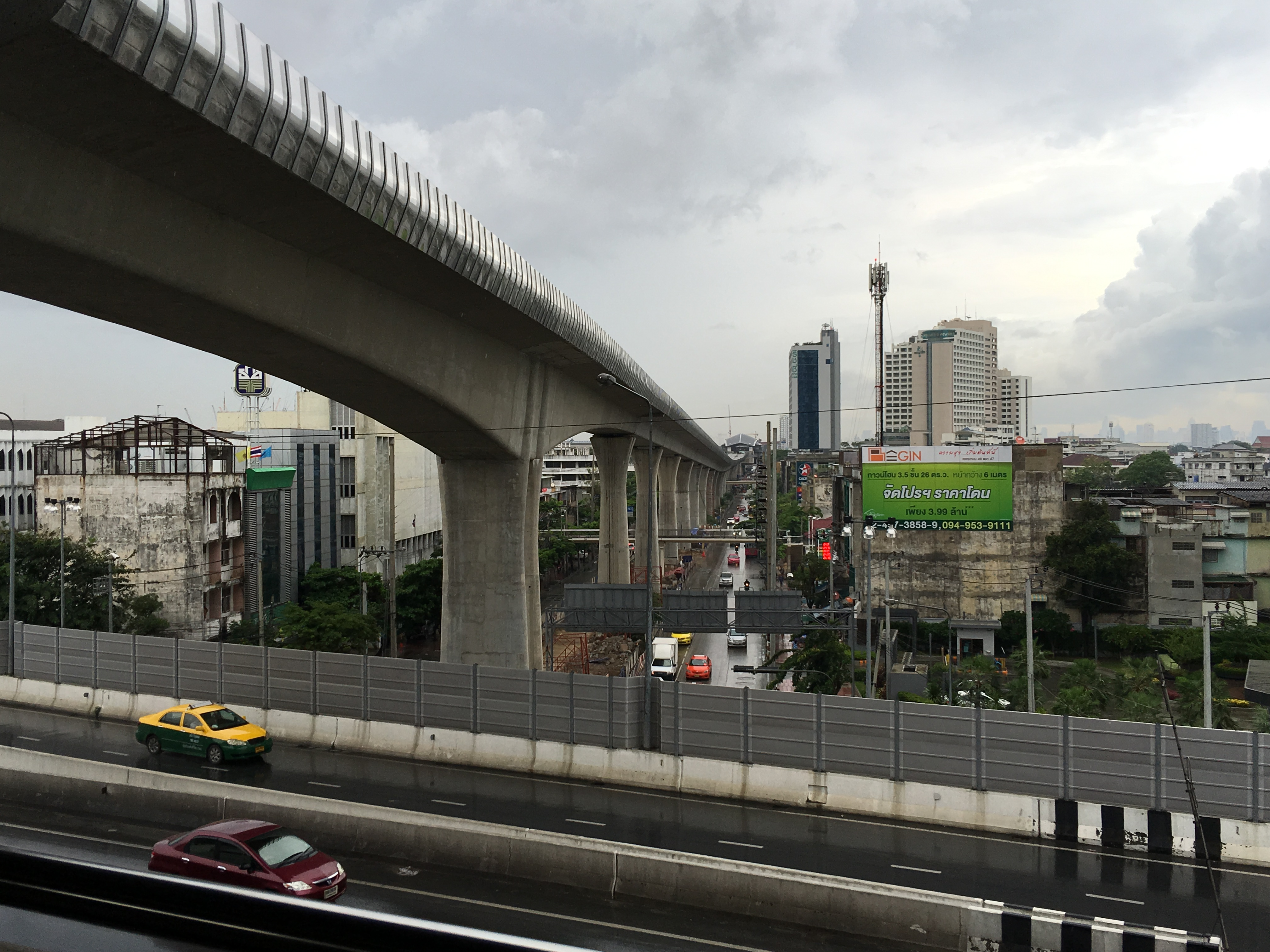 Under construction MRT Blue Line viaduct 17 June 2016